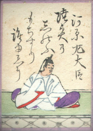 A portrait of Kawara no Sadaijin; illustration from an uta-garuta playing card for Hyakunin Isshu, created in the Edo period.